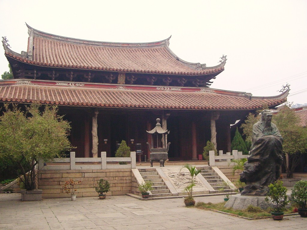 The main hall of Zhangzhou Confucian temple or Wenmiao in Zhangzhou, Fujian Province, China